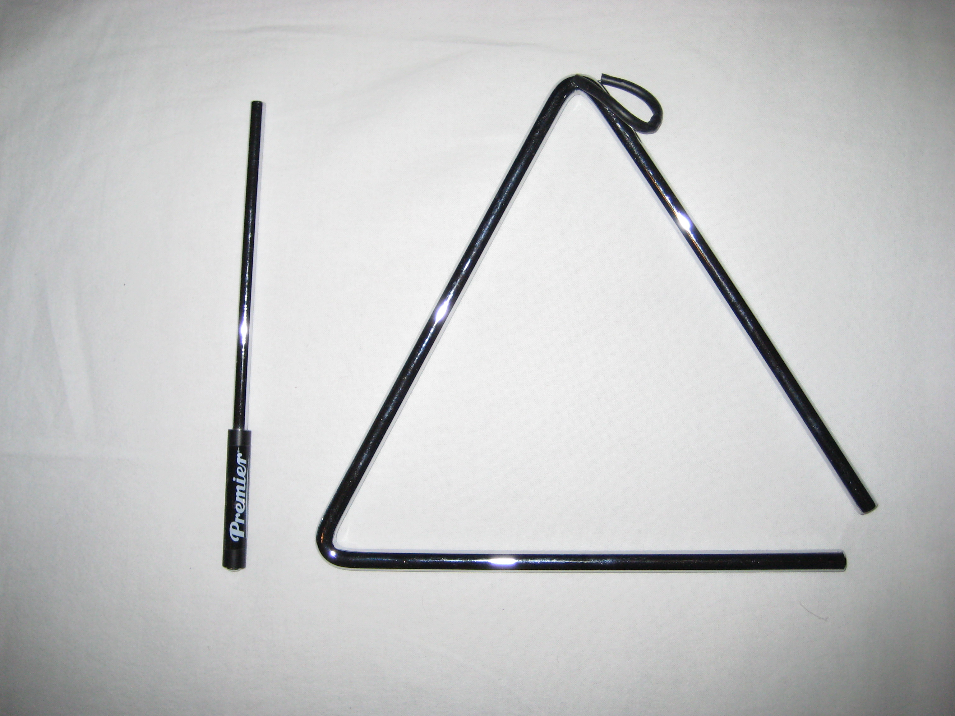 Picture of a Triangle and beater